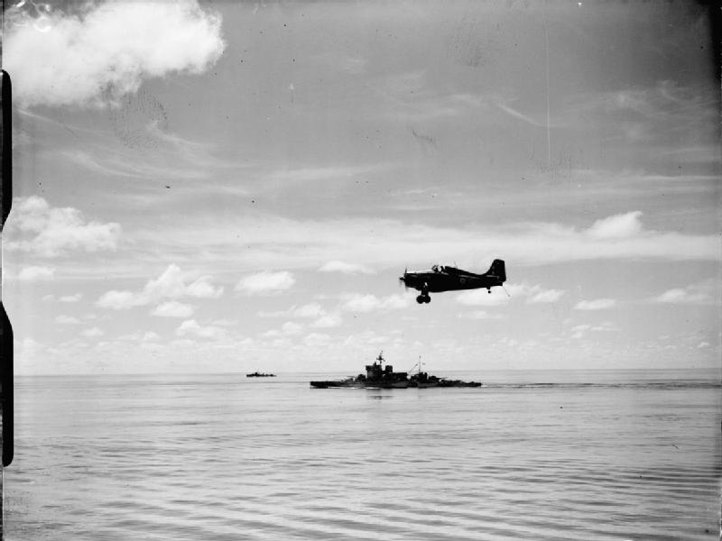 The Royal Navy during the Second World War- Madagascar, April - May 1942 A Grumman Martlet fighter of 888 Squadron, Fleet Air Arm from the aircraft carrier FORMIDABLE flying over HMS WARSPITE while circling to land during operations round Madagascar. The force left Colombo on 24 April and put into the Seychelles on 1 May. The Fleet Air Arm carried out extensive searches and patrols over a wide area during the operation. The covering force then put into Mombasa on 10 May after the operation was concluded.